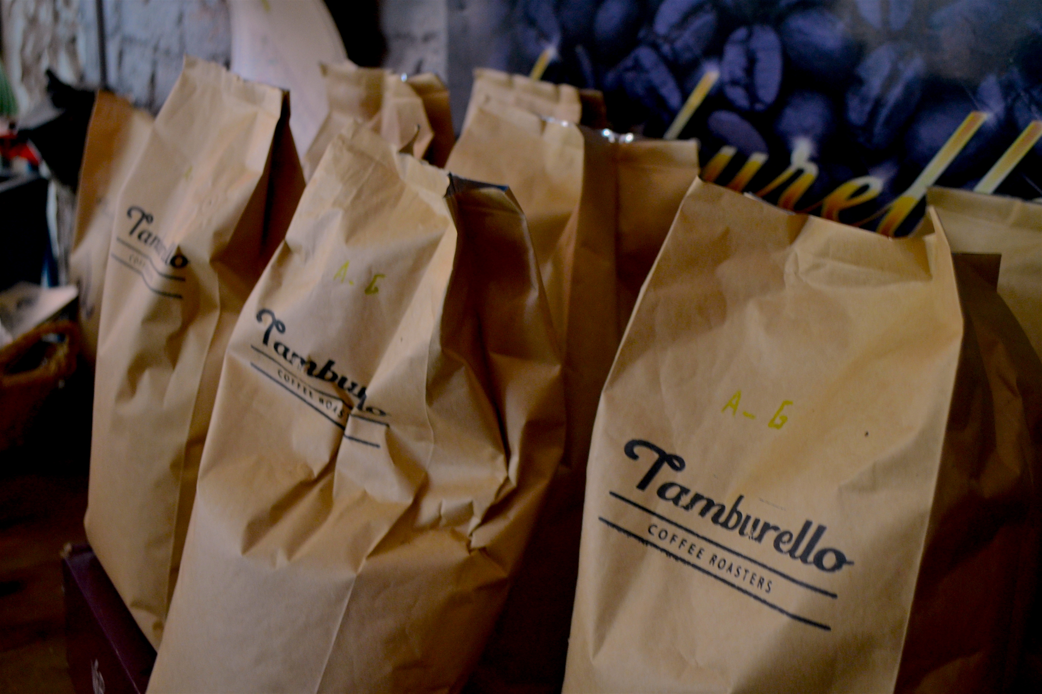 Brown paper bags full of organic coffee in the Fonda Garufa in the Condesa neighborhood in Mexico City.